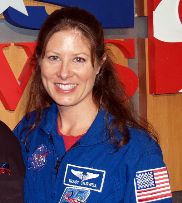 I personally took this photo of NASA astronaut Tracy Caldwell on the 40th anniversary of the first moon landing.